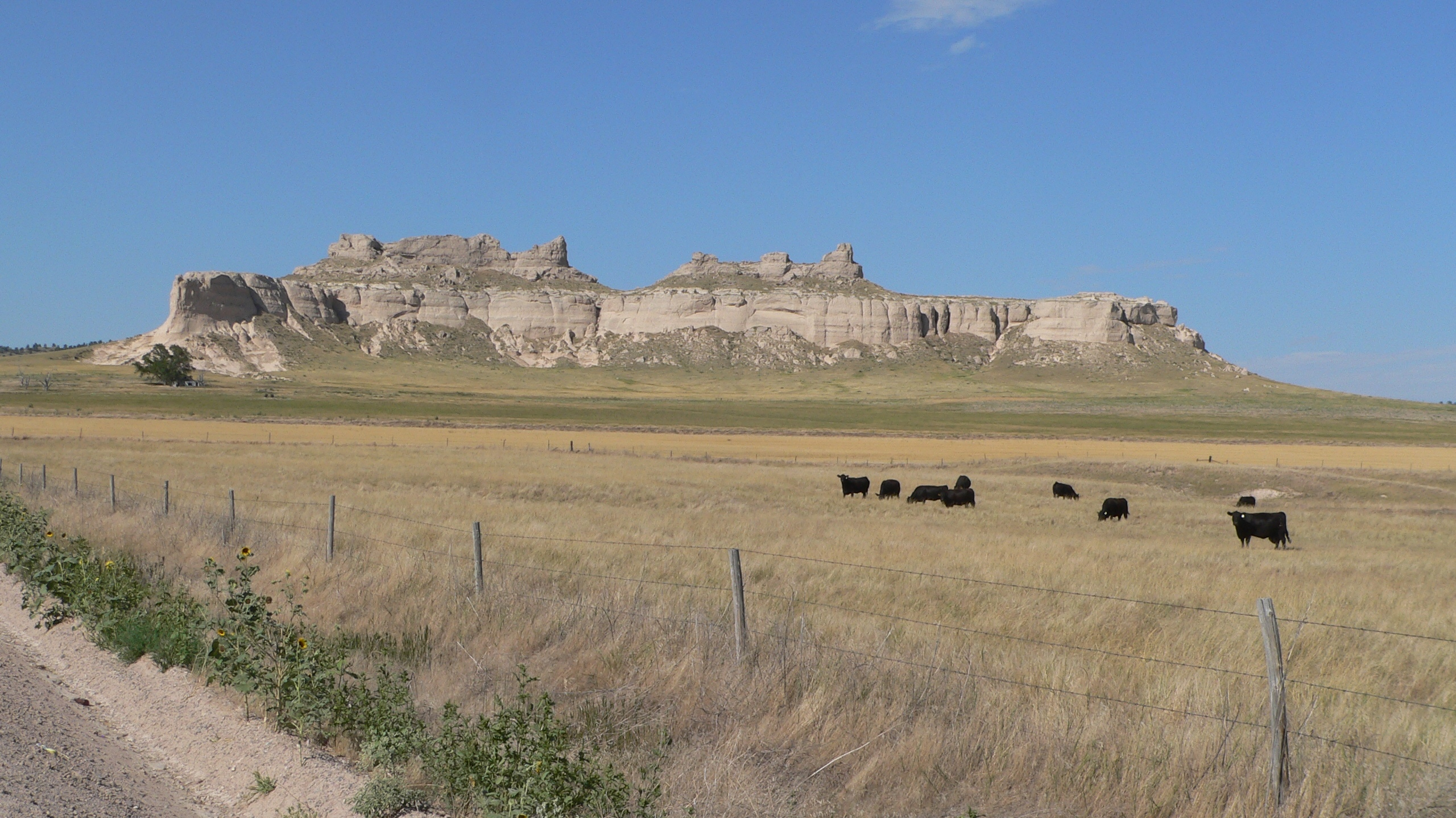 Buttes north of Pumpkin Creek in northern Banner County, Nebraska; seen from Wright's Gap Road to the southwest.